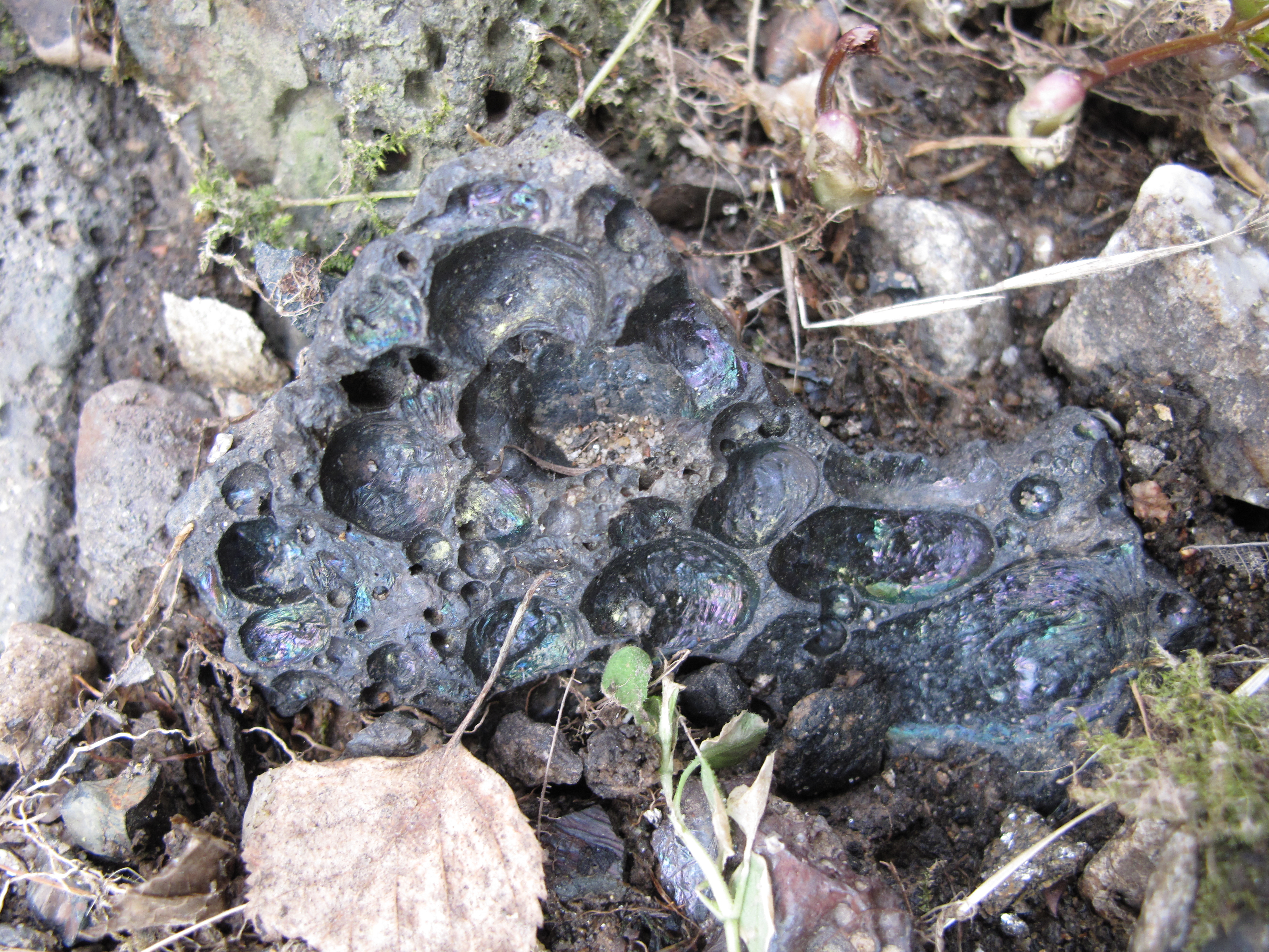 Pieces of slag in Vrchlice River, Kutná Hora District, Czech Republic. This photograph was taken within the scope of the 'Czech Municipalities Photographs' grant.